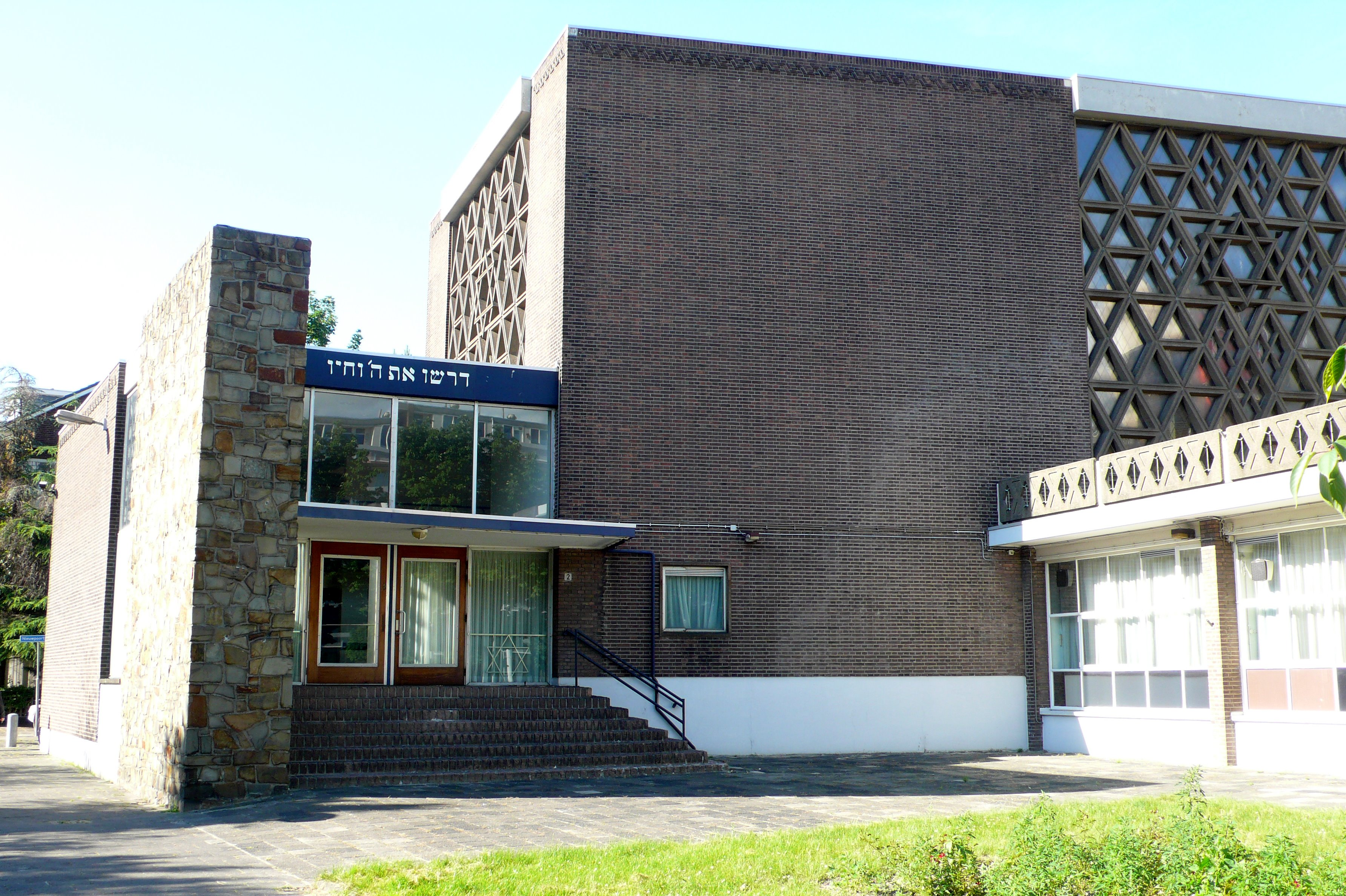 Synagogue of the Dutch Israelian Community, Rotterdam, The Netherlands